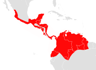 Distribution map of Artibeus phaeotis